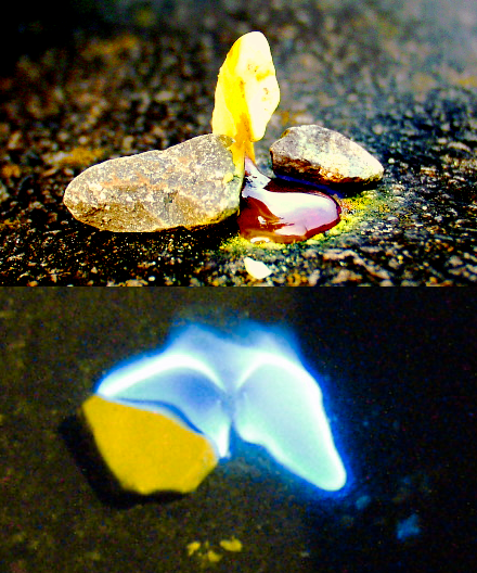 When burned, sulfur melts to a blood-red liquid and emits a blue flame which is best observed in the dark.